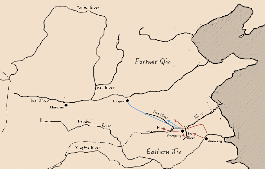 The map showing the situation of Battle of Fei River 中文（中国大陆）: 淝水之战形势示意图